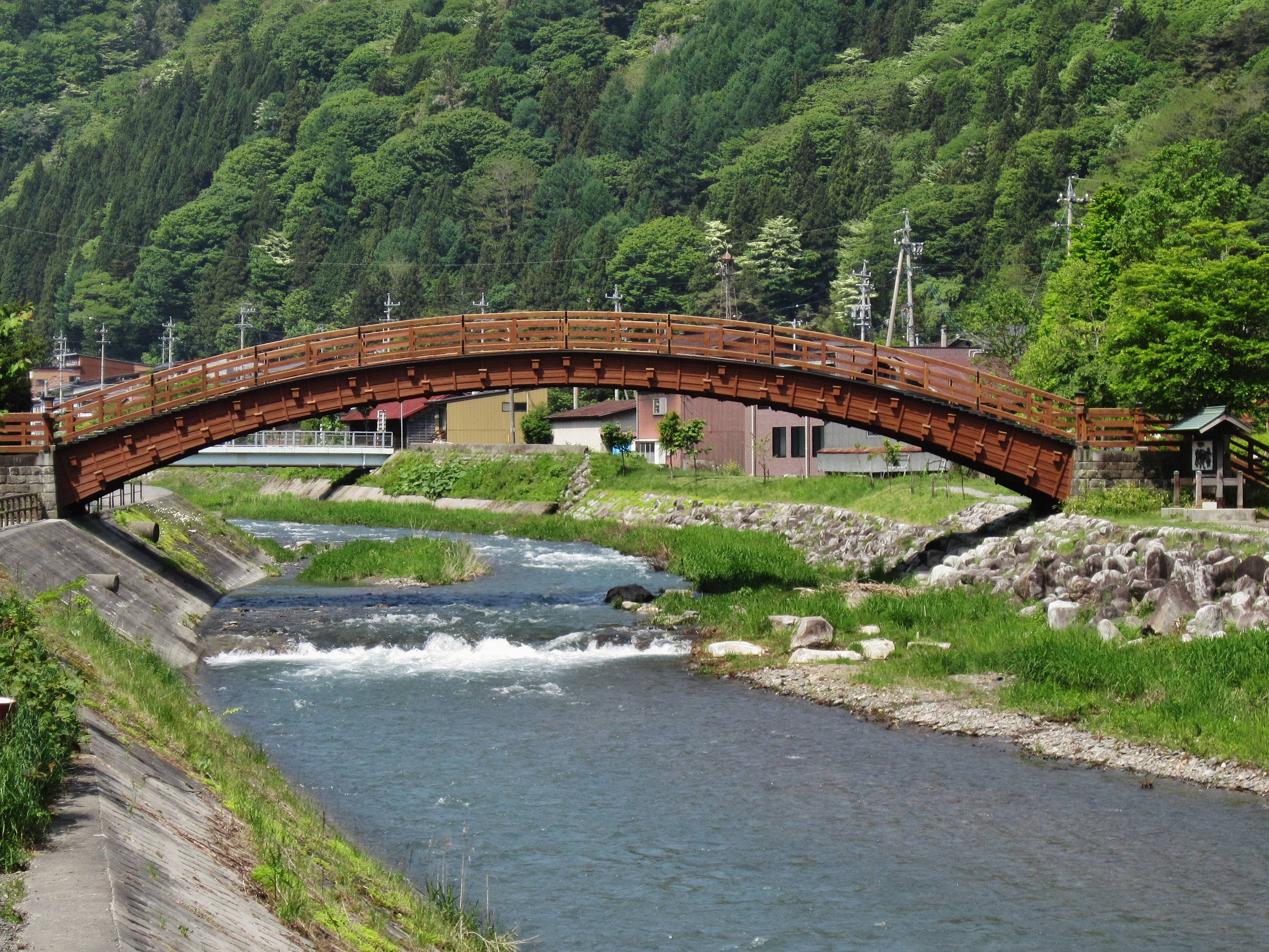 Narai River and Kiso no ōhashi